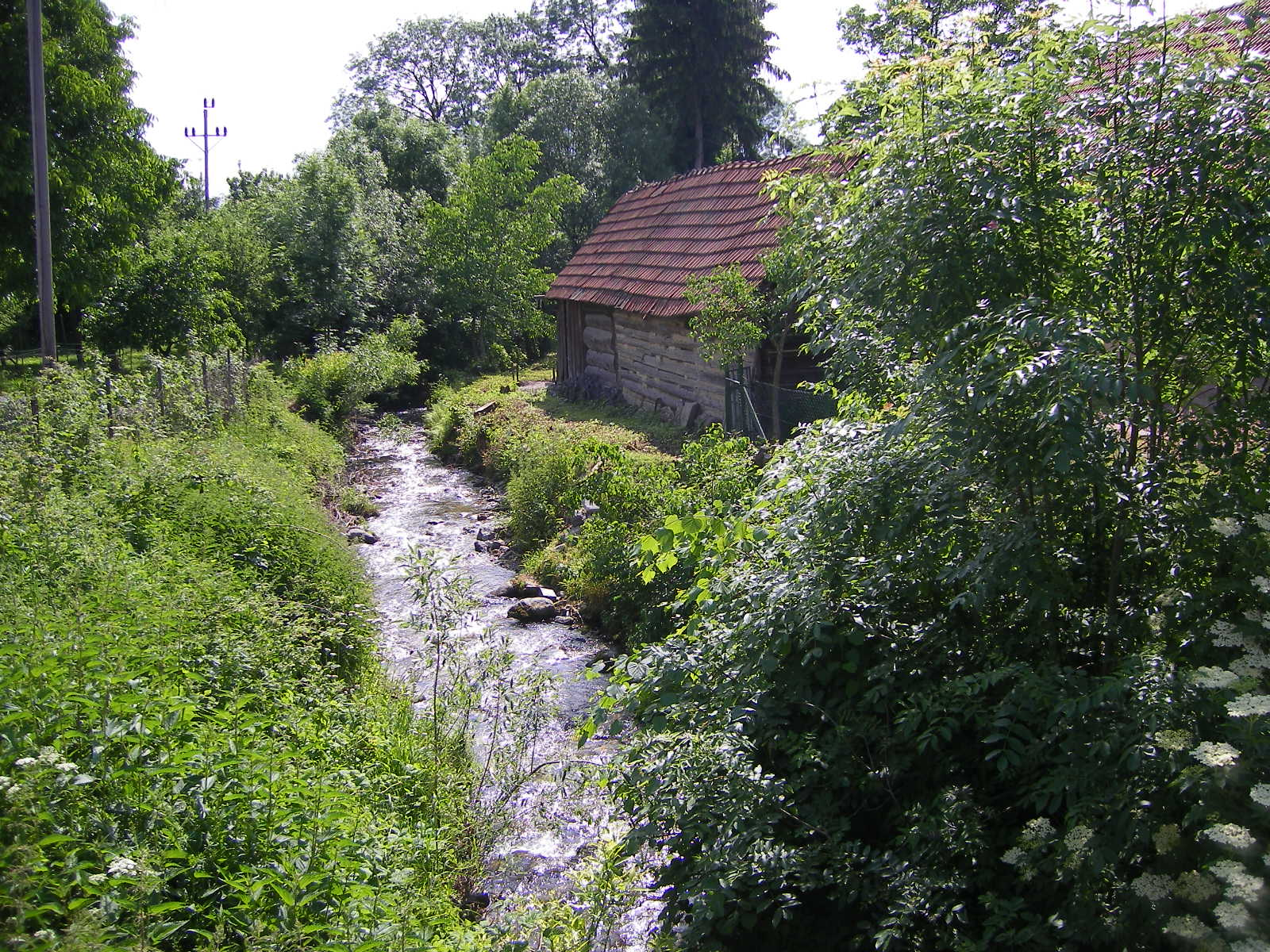 Bystrička - Bystrička stream